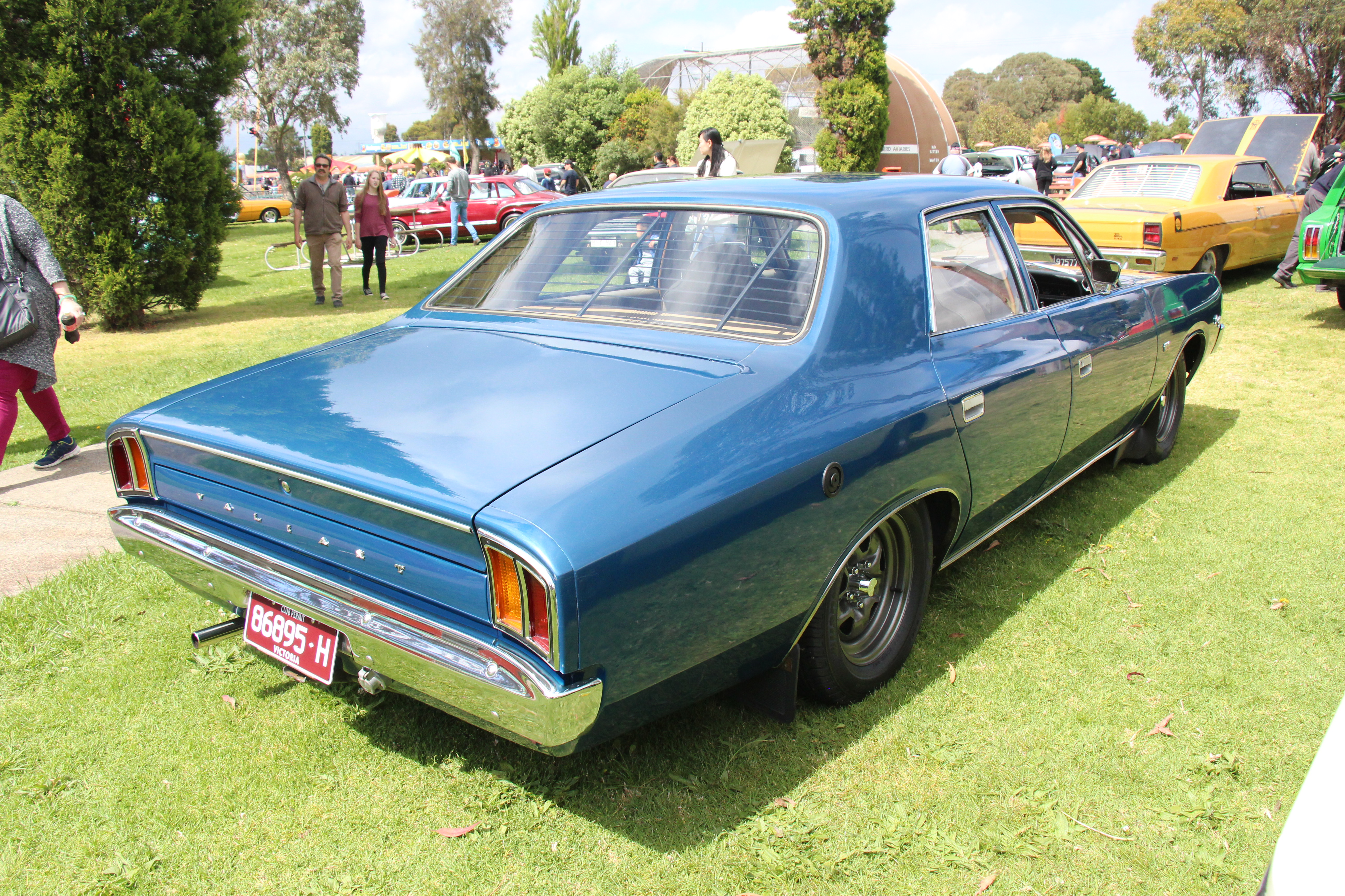 Regency Blue. The VH Valiant was built in Australia from June 1971 to May 1973, it was fully Australian designed and built. It was a larger car and more rounded than the VG, the grille heavily influenced by its US counterparts. A more powerful 265 cu in hemi 6 was introduced and the new Charger 2 door coupe. Models available were; Ranger; Sedan or Wagon, grille with horizontal aluminium bars, rectangular headlights, Standard 215 (245 option) Ranger XL; Sedan or Wagon, chrome around the taillights and windows, better interior trim Standard 245 (265 option) Regal; Sedan, Wagon or Hardtop, sill moulds, taillight panel, plusher interior, Standard 245, (265 and 318 V8 option) Regal 770; Sedan, Wagon or Hardtop, driving lights, better suspension , unique basket weave interior Pacer; Sedan only, red bars in the grille, side stripes, black out to the rear, styled steel wheels, sports interior, 265 Hemi 6 The new Charger coupe was available in XL, luxury 770 or the performance RT (and E37, E38, E48, E49 and E55 versions) Engines; 140hp 215, 165hp 245 or 203 to 302hp 265 Hemi 6s and 230hp 318, 275hp 340 (E55) or 255hp 360 V8s